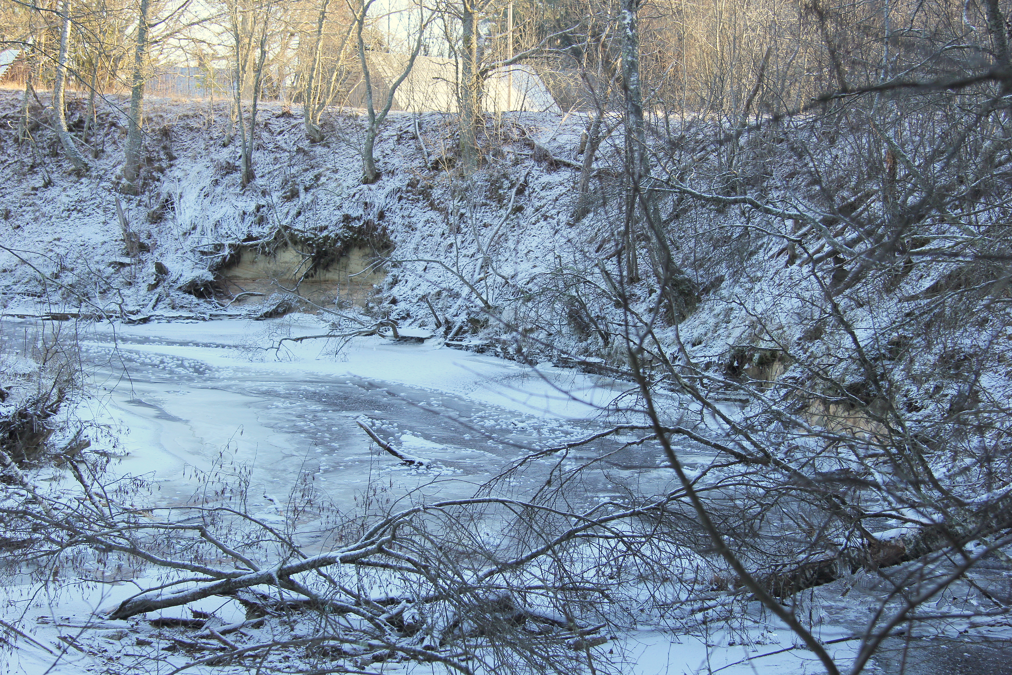 River Brasla during Winter